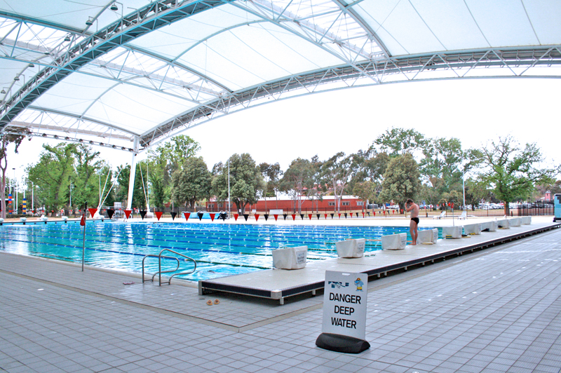 Olympic Swimming Pool